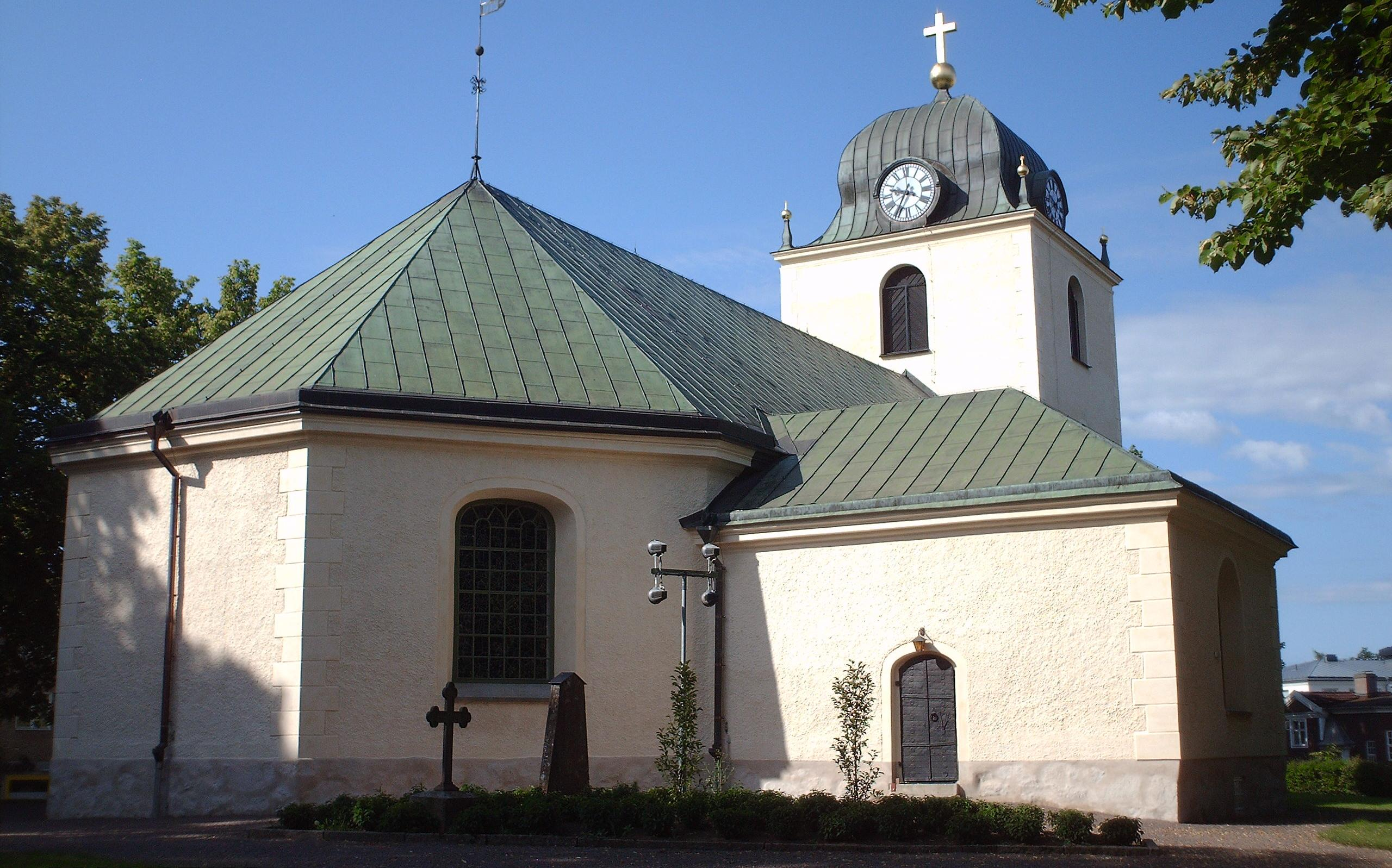 Mjölby Church, Sweden.